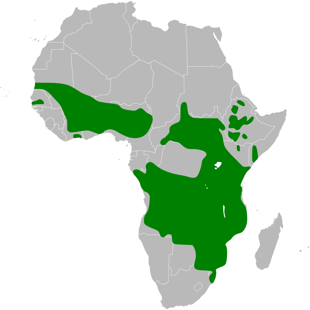 Mirafra rufocinnamomea distribution map; using BlankMap-Africa.svg, based on